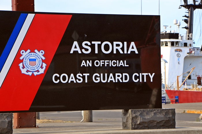 A sign in Astoria, Oregon, USA designating that city as a "Coast Guard City." Behind, the U.S. Coast Guard ship USCGC Alert can be seen.